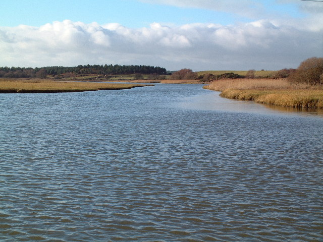 Wytch Lake. Looking west (ie upstream) at high tide. After about 500 metres this arm of Poole Harbour narrows considerably to the point where it is fed by the Corfe River.